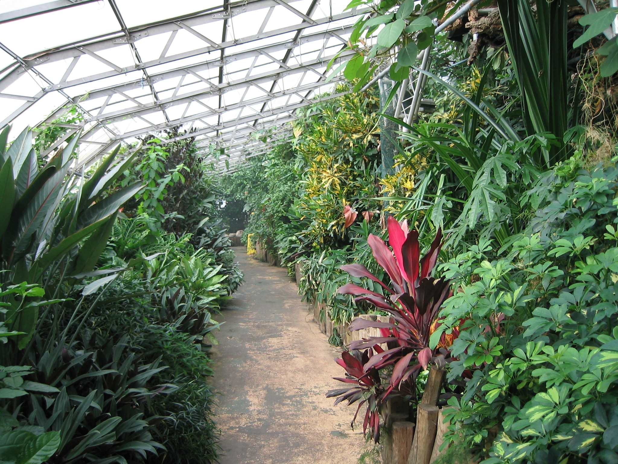 Tropical World, Roundhay, Leeds. Part of upper walkway.